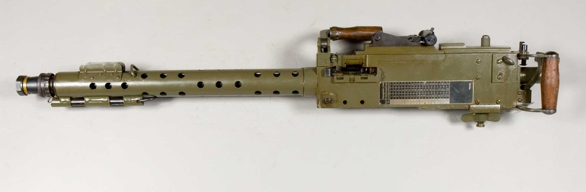 The Kulspruta m/42 (Ksp m/42) machine gun, is a Swedish derivative of the M1919 Browning machine gun. Photo from the Swedish Army Museum collections.